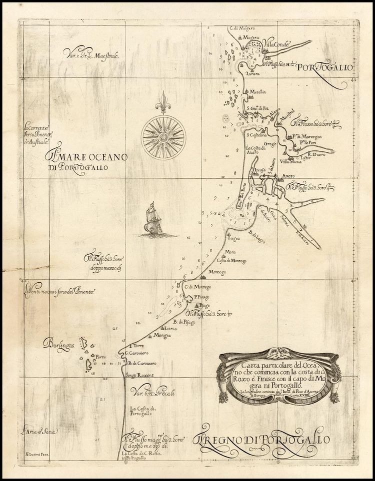 Dell'Arcano del Mare: chart of northern Portugal by Anton Francesco Lucini and Robert Dudley (Florence, 1646)